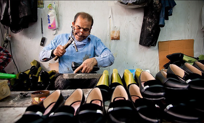 A man is making shoes in Grand Bazar of Tehran. (April 2013)